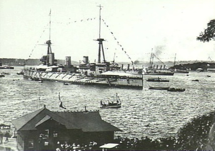 AWM caption : The official welcome to the new units of the Royal Australian Navy under the command of Rear Admiral Sir George Patey KCVO. The Australian Naval ships are the Indefatigable class battle cruiser HMAS Australia in the foreground arriving at Farm Cove after her first voyage from Britain, and the light cruisers HMAS Sydney and HMAS Melbourne. The ships are 'fully dressed' with pennants.